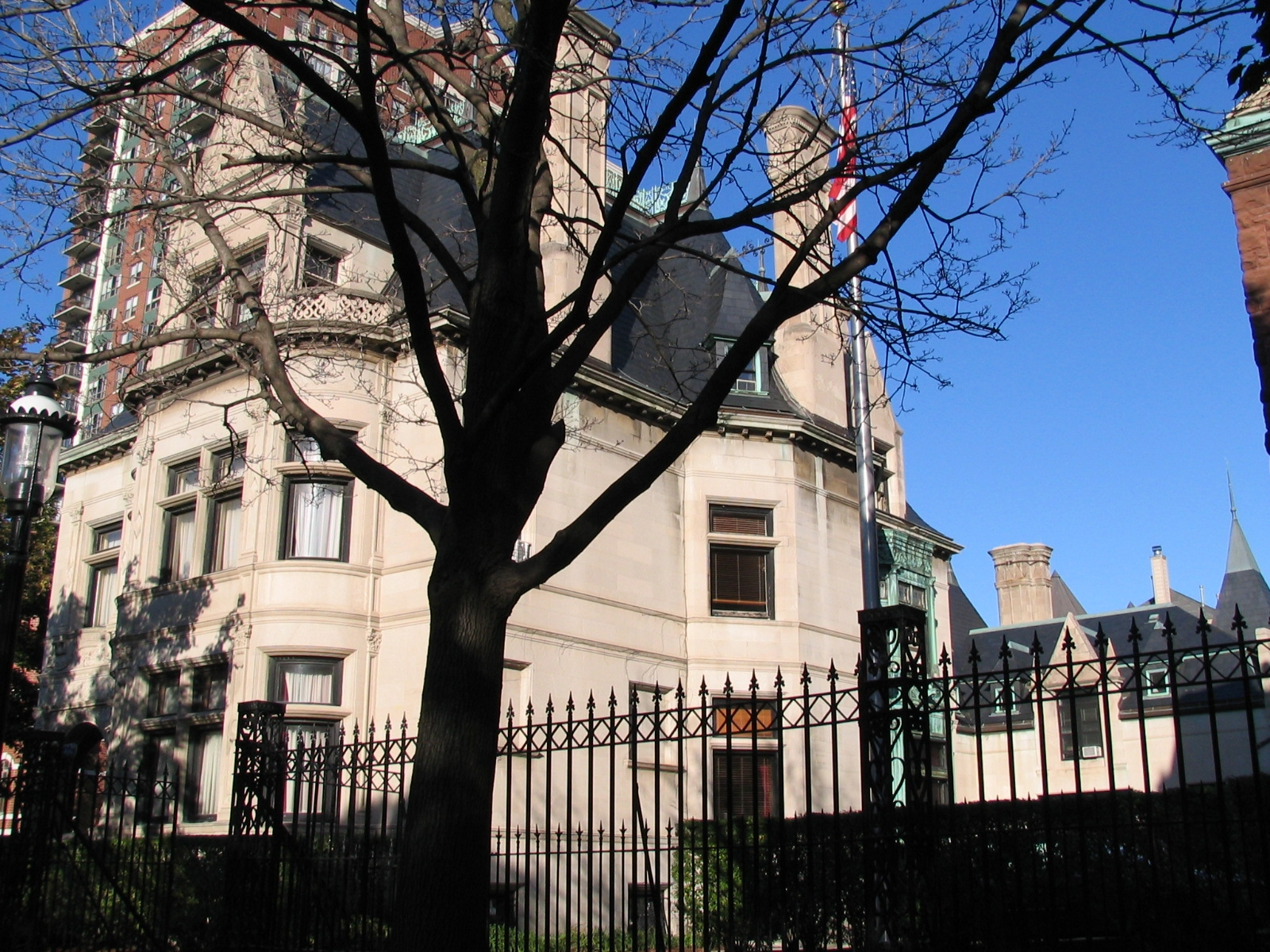 South side yard, William W. Kimball House, 1801 S. Prairie Ave., Chicago, IL. Solon Spencer Beman, architect. 1890